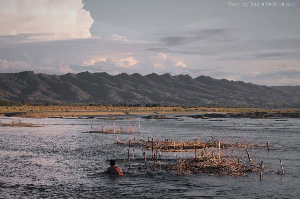 Padsan River is located at Sarrat, Ilocos Norte